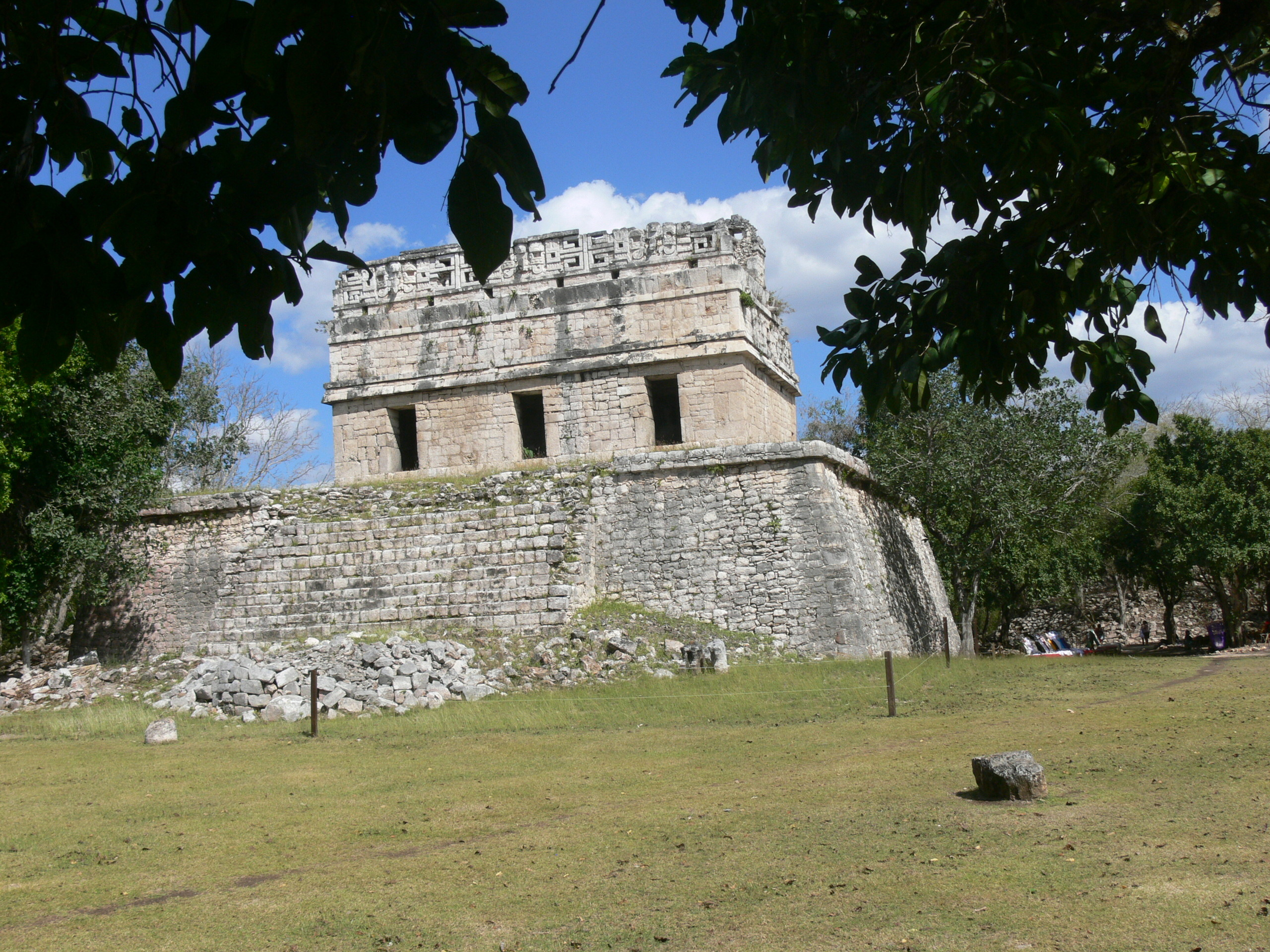 Chichén Itzá ( Yucatan ). La Casa Colorada.